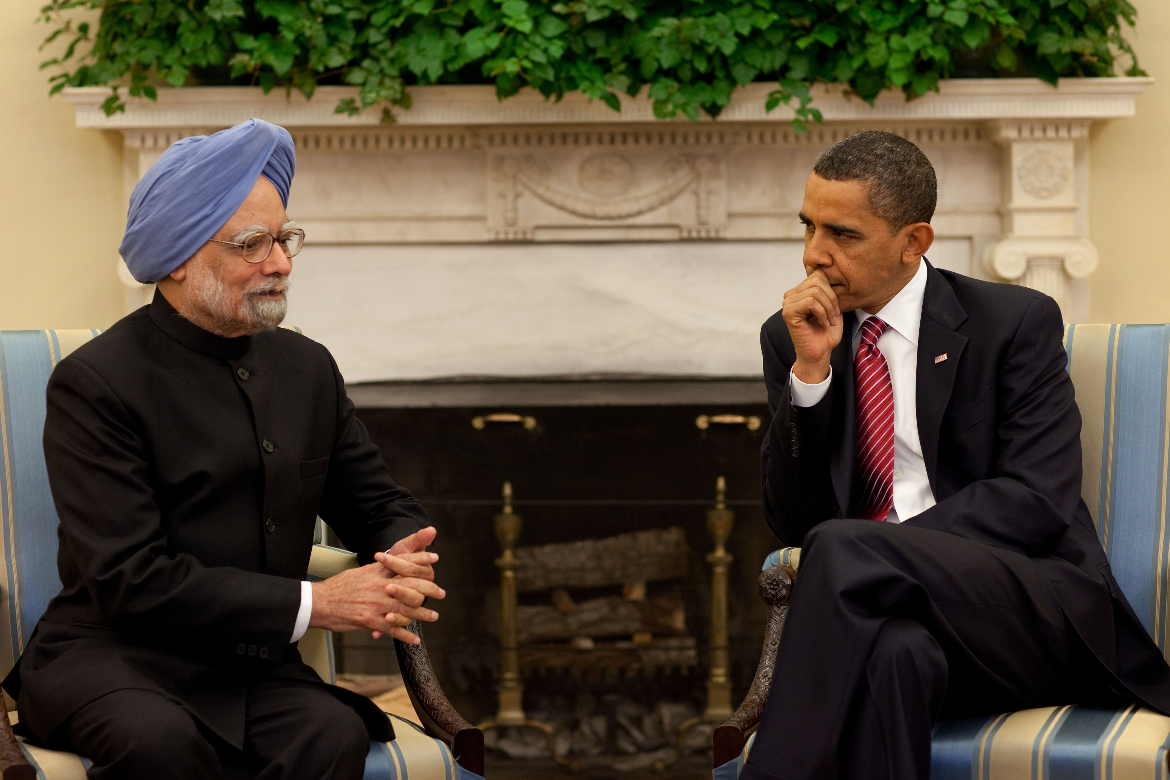 President Barack Obama meets with Prime Minister Manmohan Singh during their bilateral meeting in the Oval Office, Nov. 24, 2009.